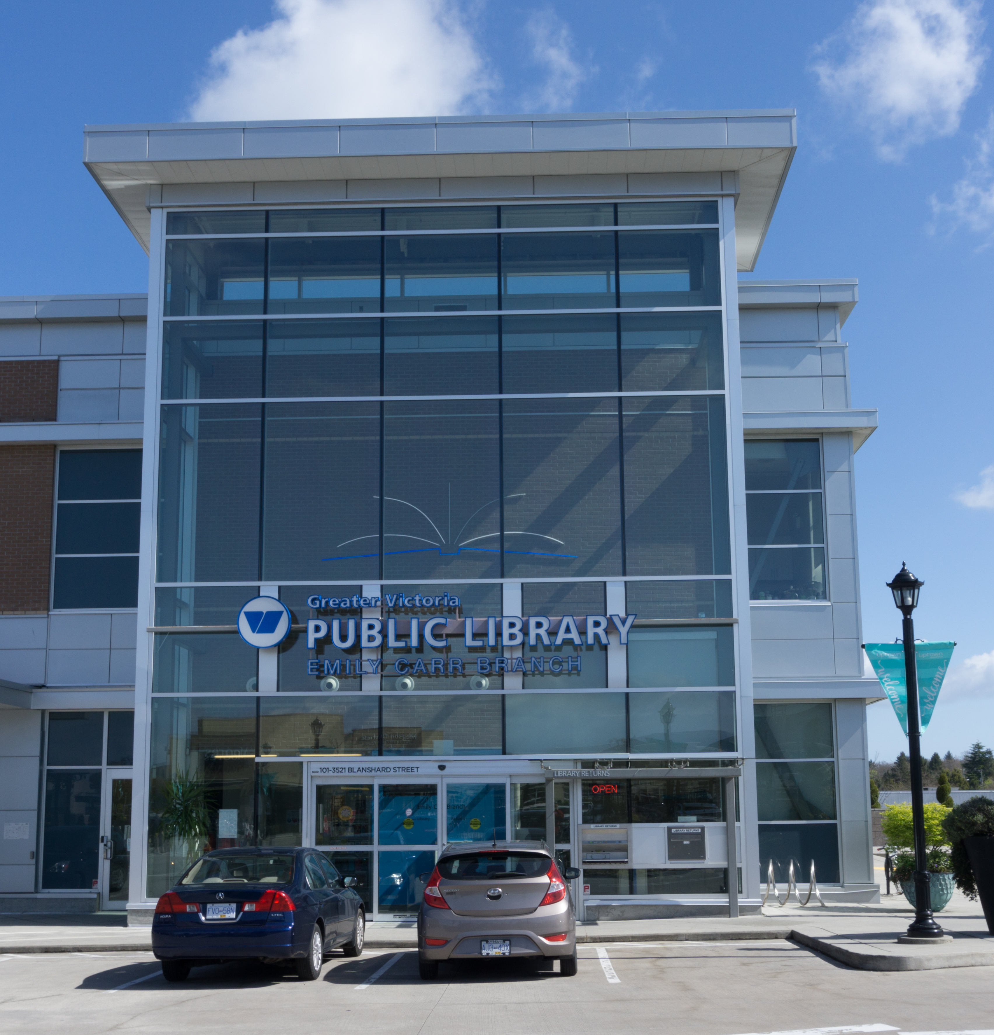 Emily Carr Branch Library. Victoria, British Columbia, Canada